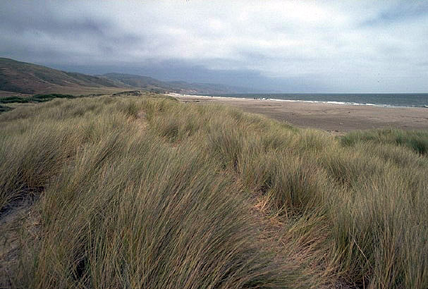 A coastal dune grassland on the Pacific Coast, USA